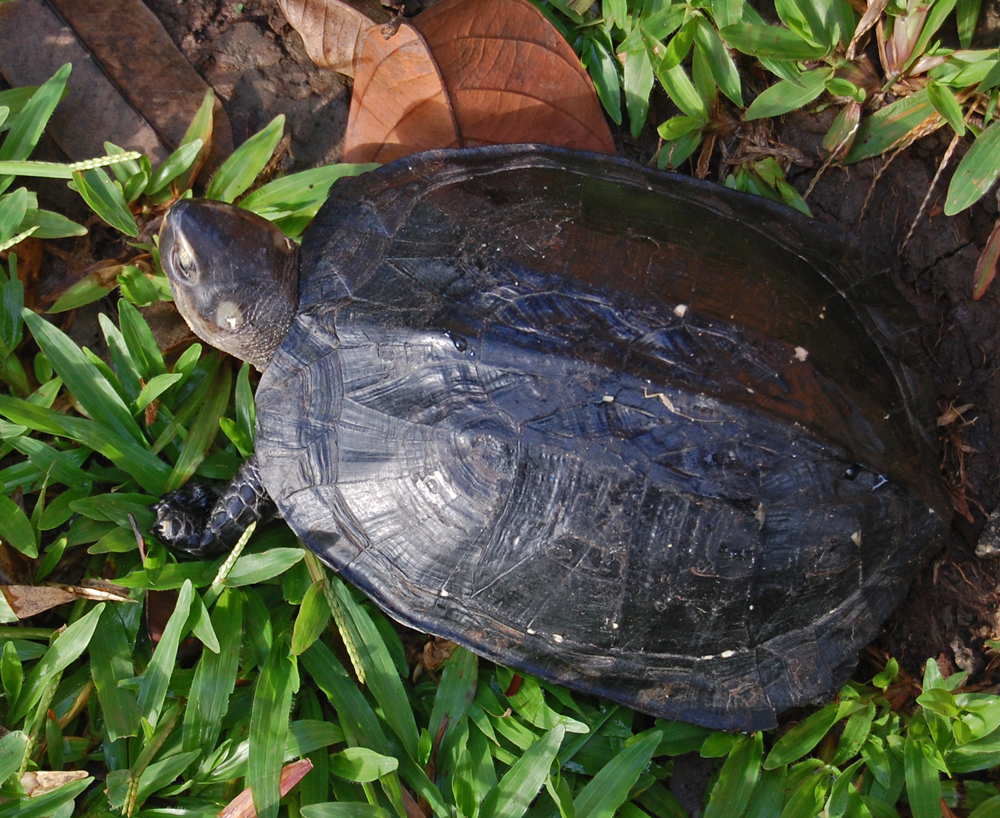 Siebenrockiella crassicollis, carapace length 155mm. From Java, Indonesia.